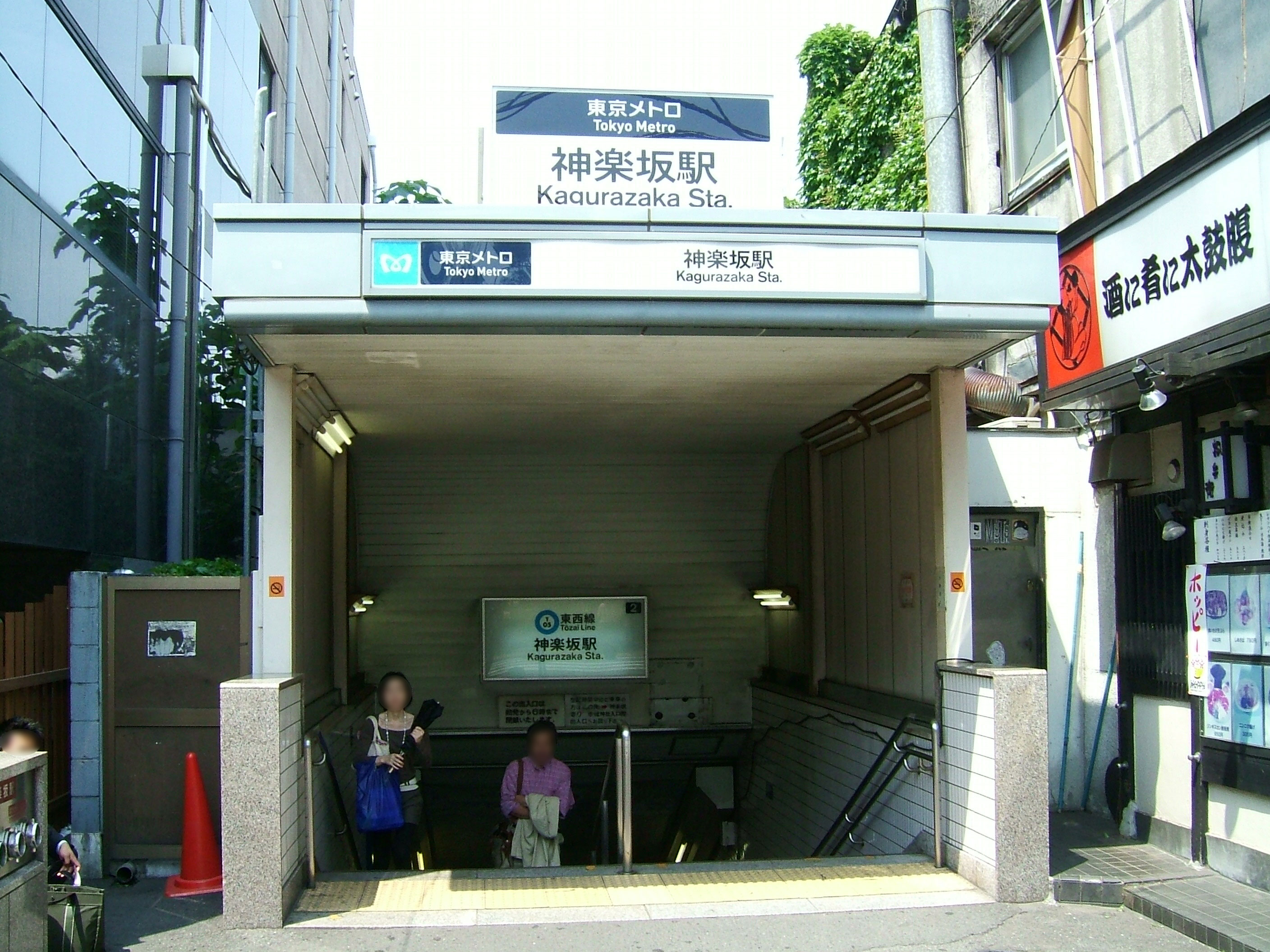 Kagurazaka Station no.2 entrance (Tokyo Metro Tōzai Line)